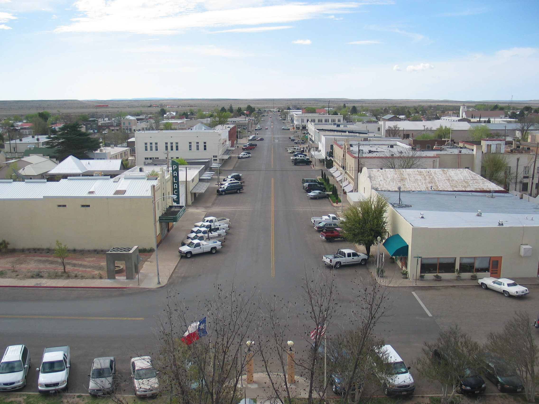 View south across Marfa, Texas from the Presidio County court house.